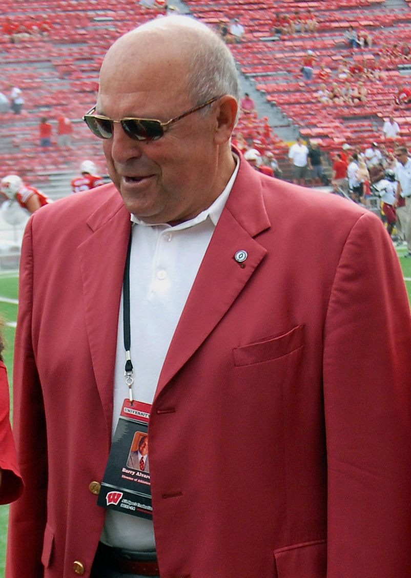 University of Wisconsin-Madison athletic director and former football coach Barry Alvarez at "a pre-game ceremony that honored Wisconsin veterans during the Badgers Football Salute to Veterans event." Source